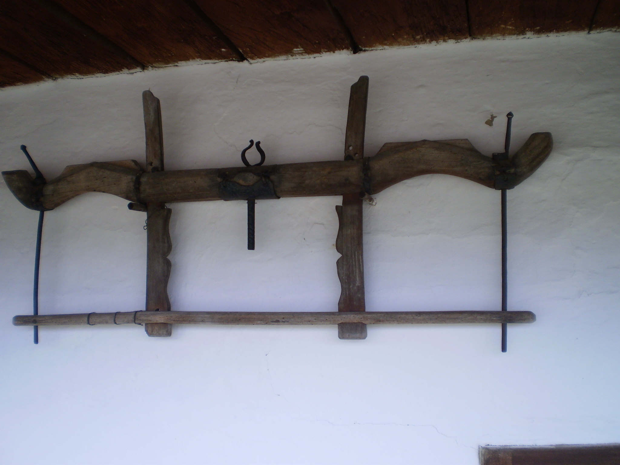 Yoke